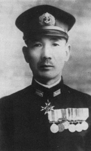 REAR ADMIRAL AKIYAMA commanded the Japanese 6th Base Force from his headquarters on Kwajalein.